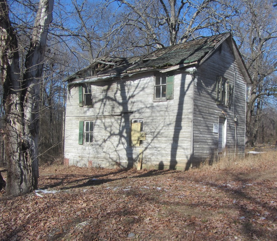 Mount Mariah Lodge Number 7